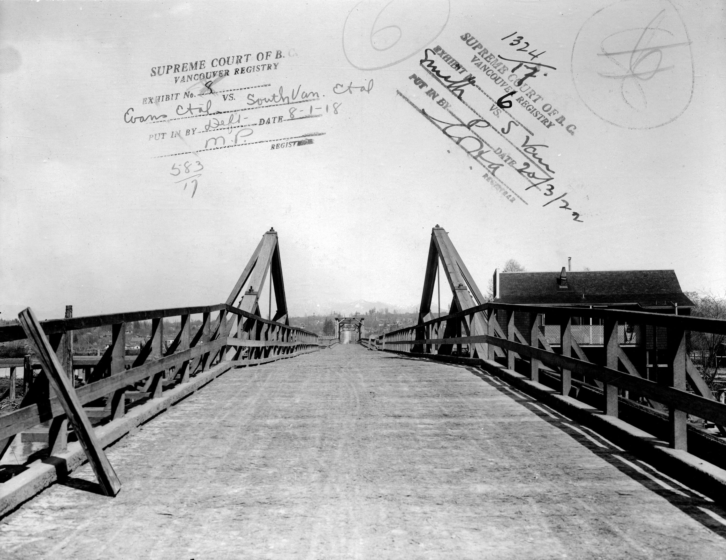 Northward of Fraser Avenue Bridge approach to section across channel between Lulu Island and Twigg Island